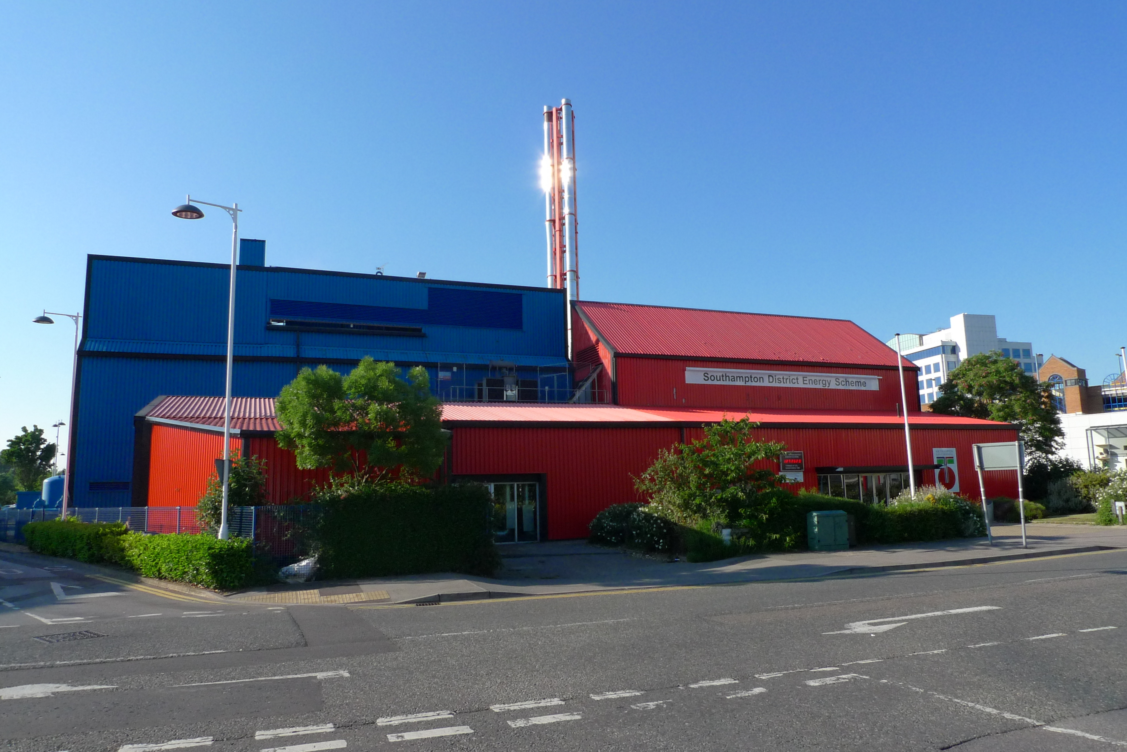 Southampton District Energy Scheme is a geothermal power plant providing heating for various buildings in the city centre.